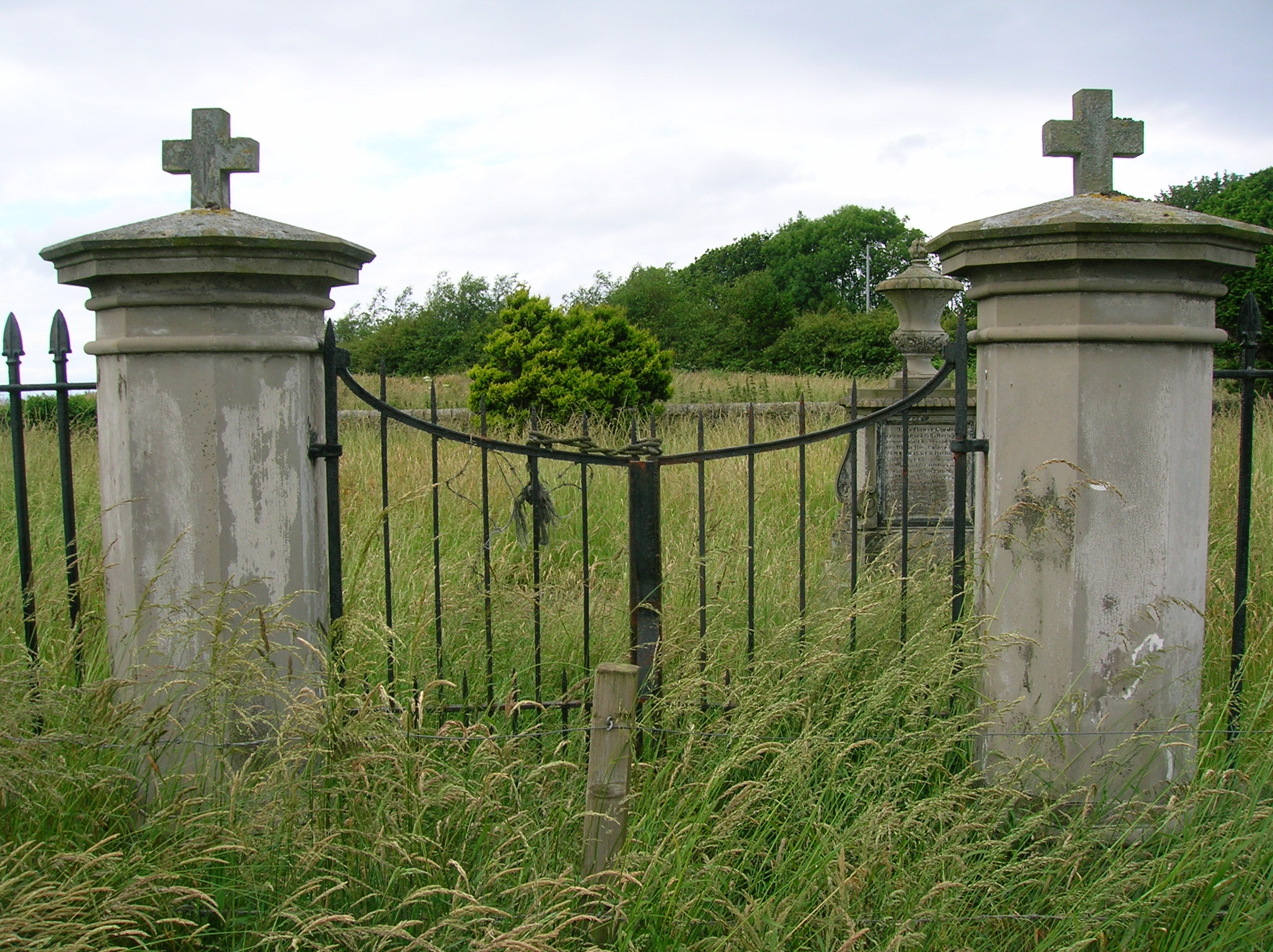 Fairfield cemetery garden gates, Monkton, Ayrshire, Scotland.